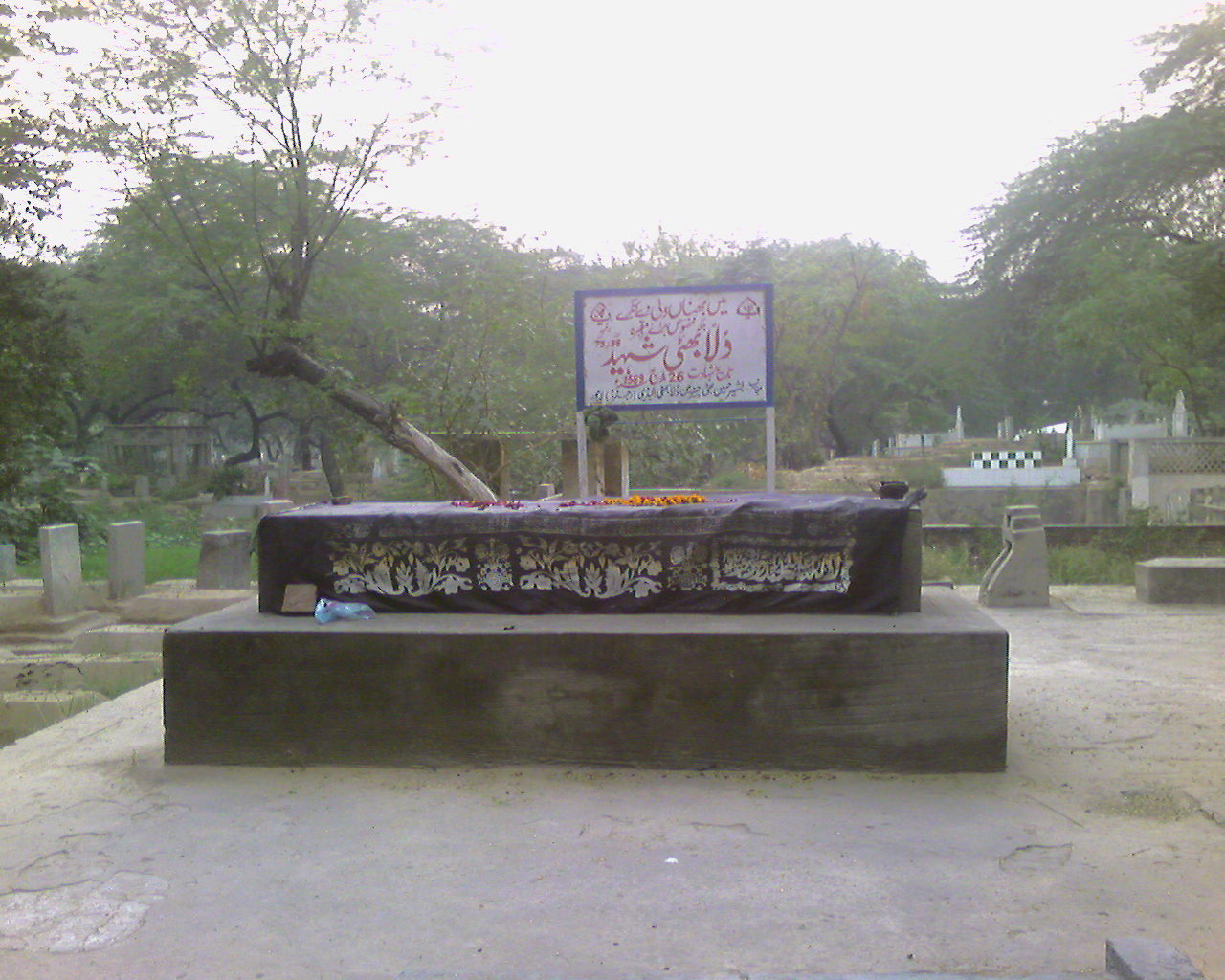 Dullya we tokra chakaayeen aan ke (sung by kuldeep manak). A lion heart to challenge mughals. Buried in Miani Sahab Lahore.